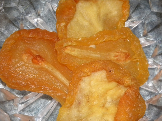 Dried Pears